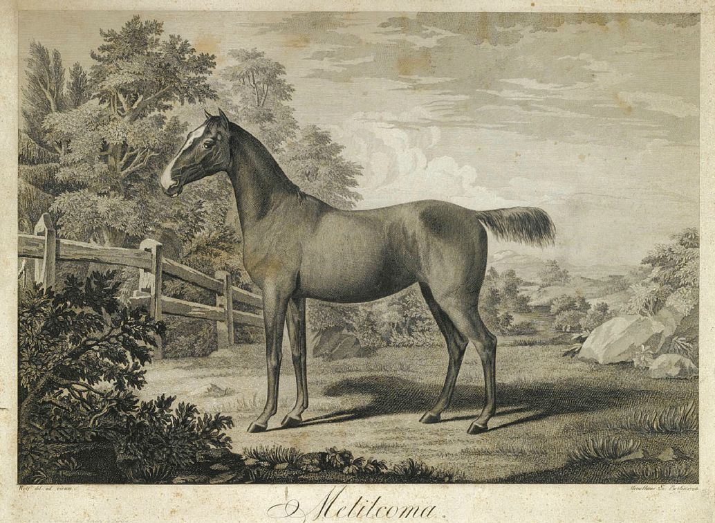 Meno Haas after ?Wolf - Portrait of a stallion "Melilcoma"